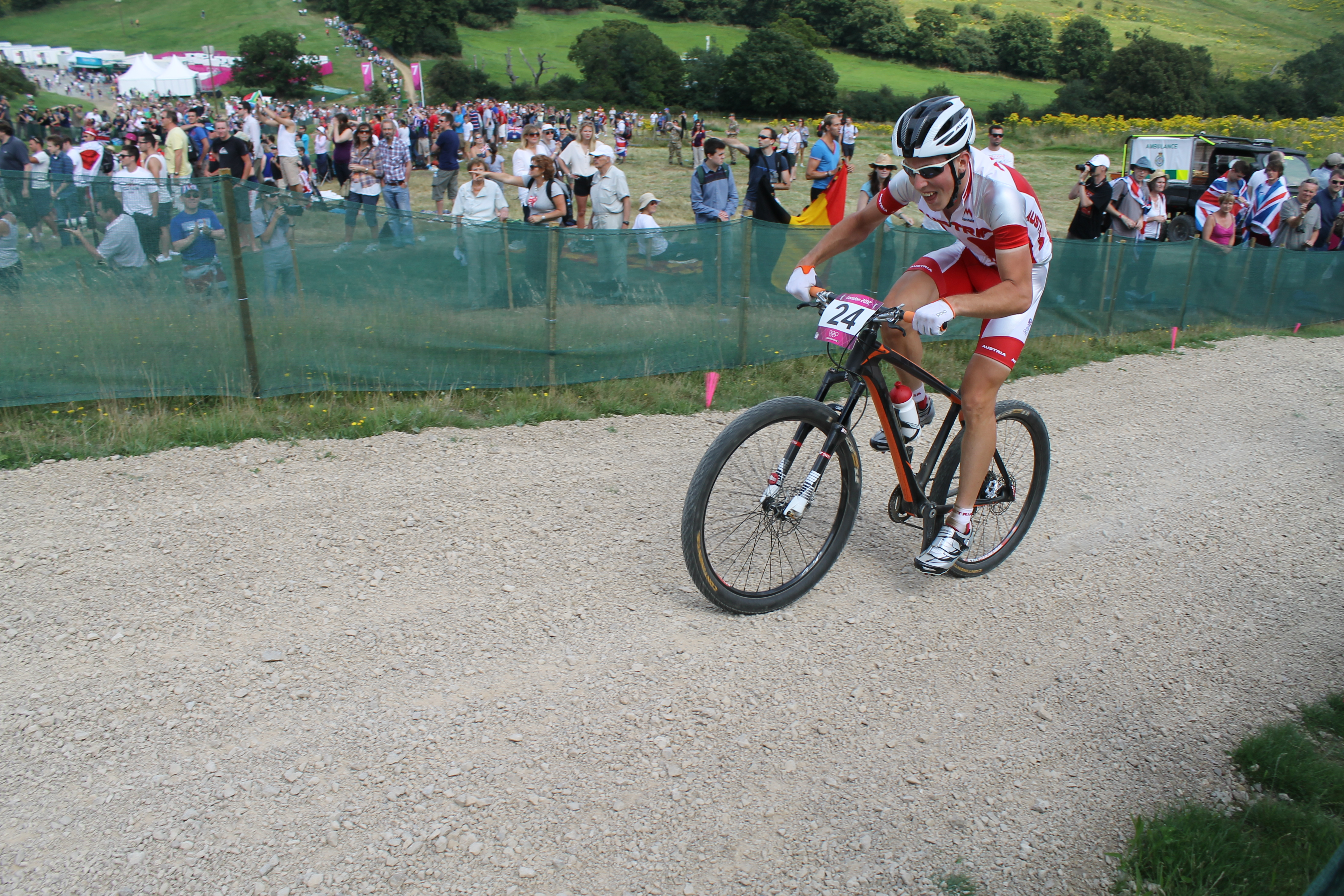 Cycling at the 2012 Summer Olympics – Men's cross-country Alexander Gehbauer (24) (AUT) IMG_3998